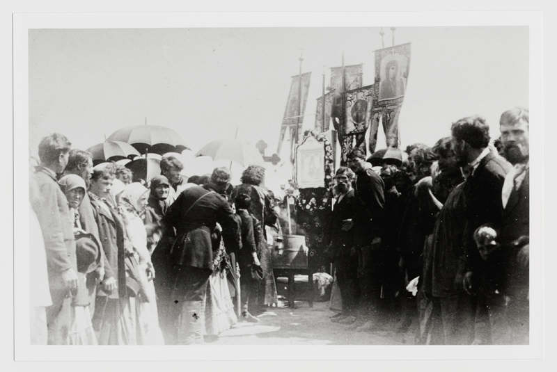 An outdoor religious service, Hughesovka